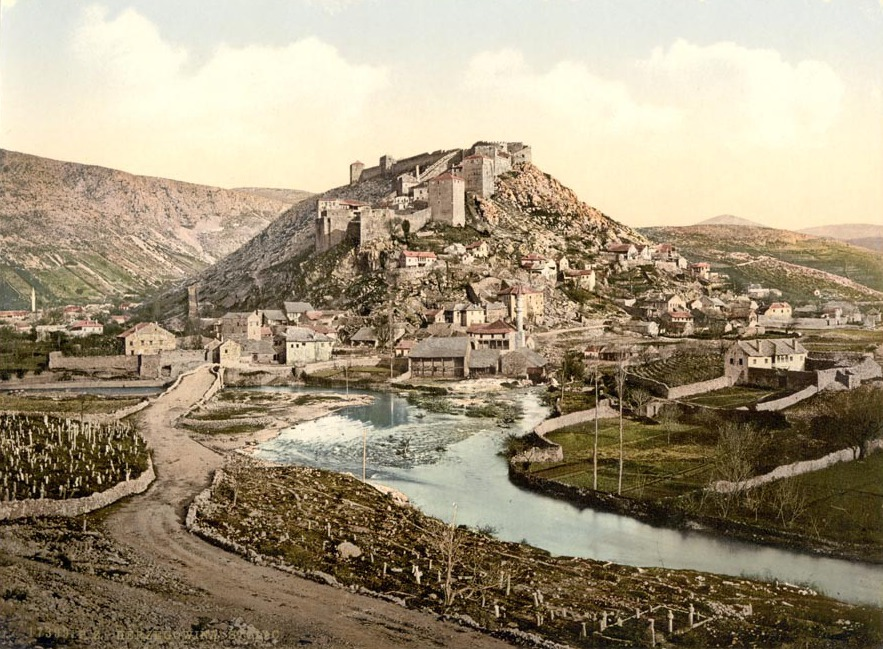 Stolac Bosnia Austro-Hungary